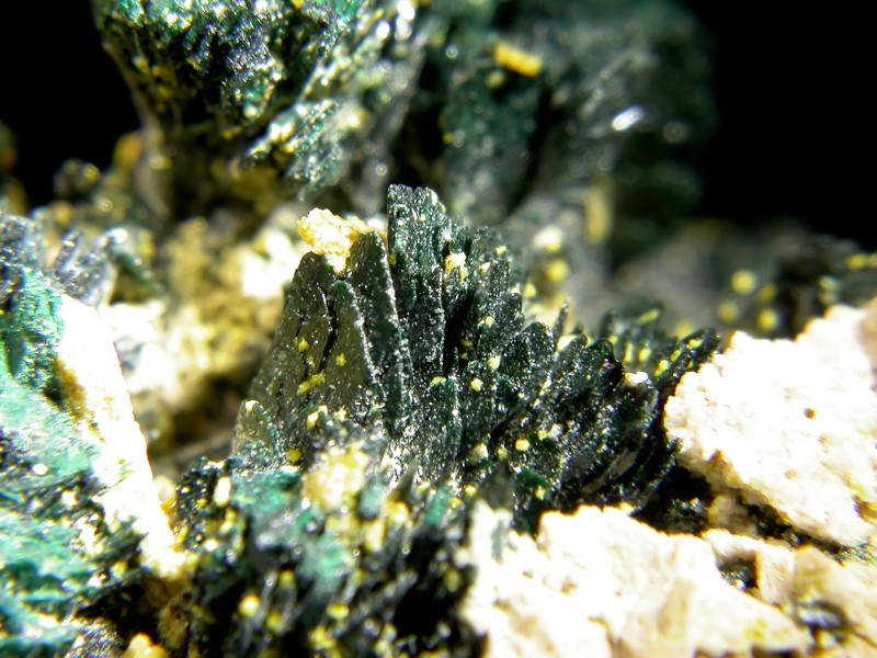 Vandenbrandeite, Kasolite Locality: Musonoi Mine, Kolwezi, Western area, Katanga Copper Crescent, Katanga (Shaba), Democratic Republic of Congo (Zaïre) (Locality at ) Size: 5.5 x 2.2 x 4 cm. This is an unusually good specimen of large Vandenbrandeite crystals, well isolated on matrix. Well developed dark green Vandenbrandeite crystals gathered together in unusual "bowtie" shapes, with small yellow Kasolite flakes decorating them. Kasolite occurs in Musonoi in this form and is easily recognizable because it shows a highly pearly lustre. Some small yellowish frosted Baryte crystals are associated. The Vandenbrandeite bowties reach 5 mm.